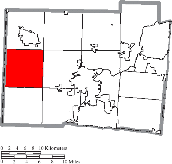 Map of the municipal and township boundaries of Butler County, Ohio, United States, as of the 2000 census, with the location of Reily Township highlighted. Township borders are shown only in unincorporated areas in order to differentiate incorporated and unincorporated areas more clearly.